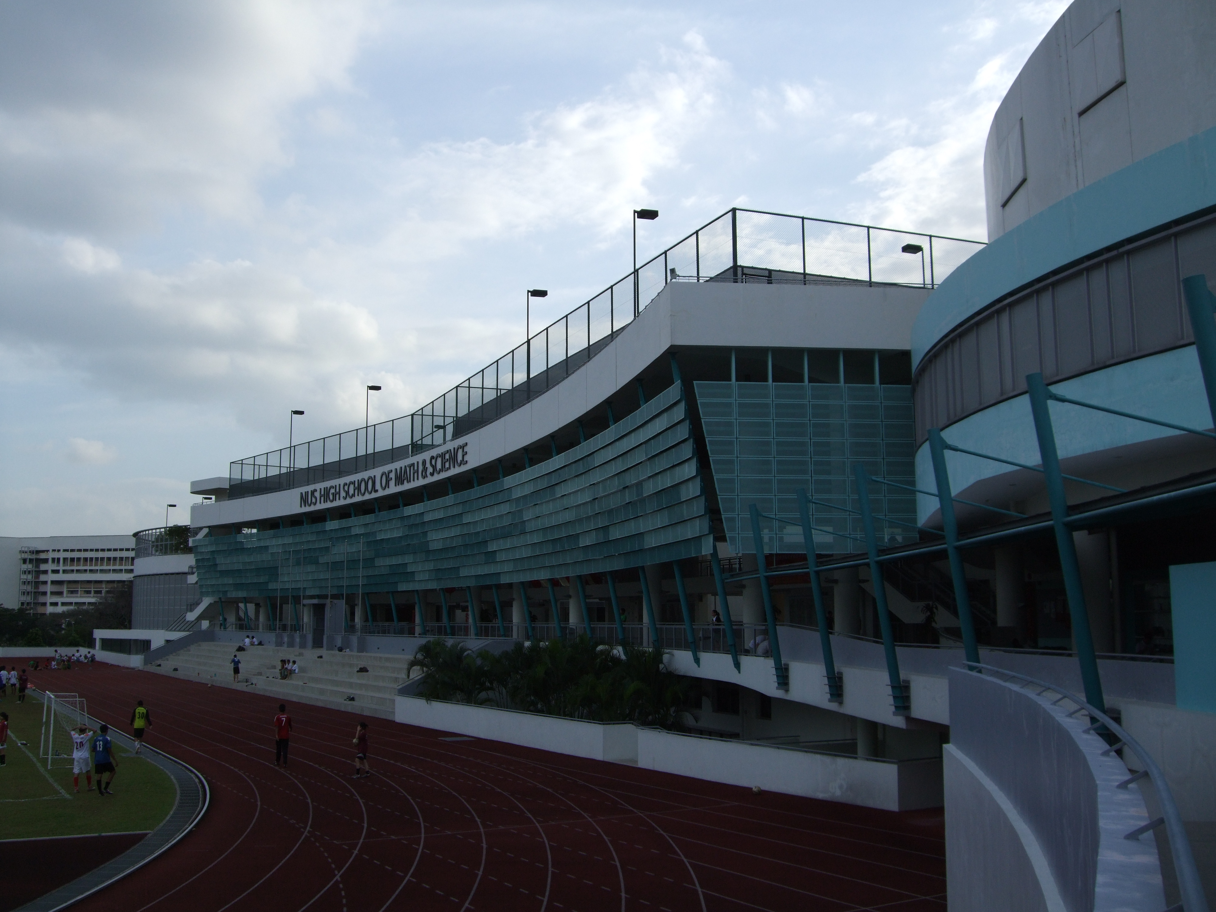 The running track of the National University of Singapore High School of Mathematics and Science.